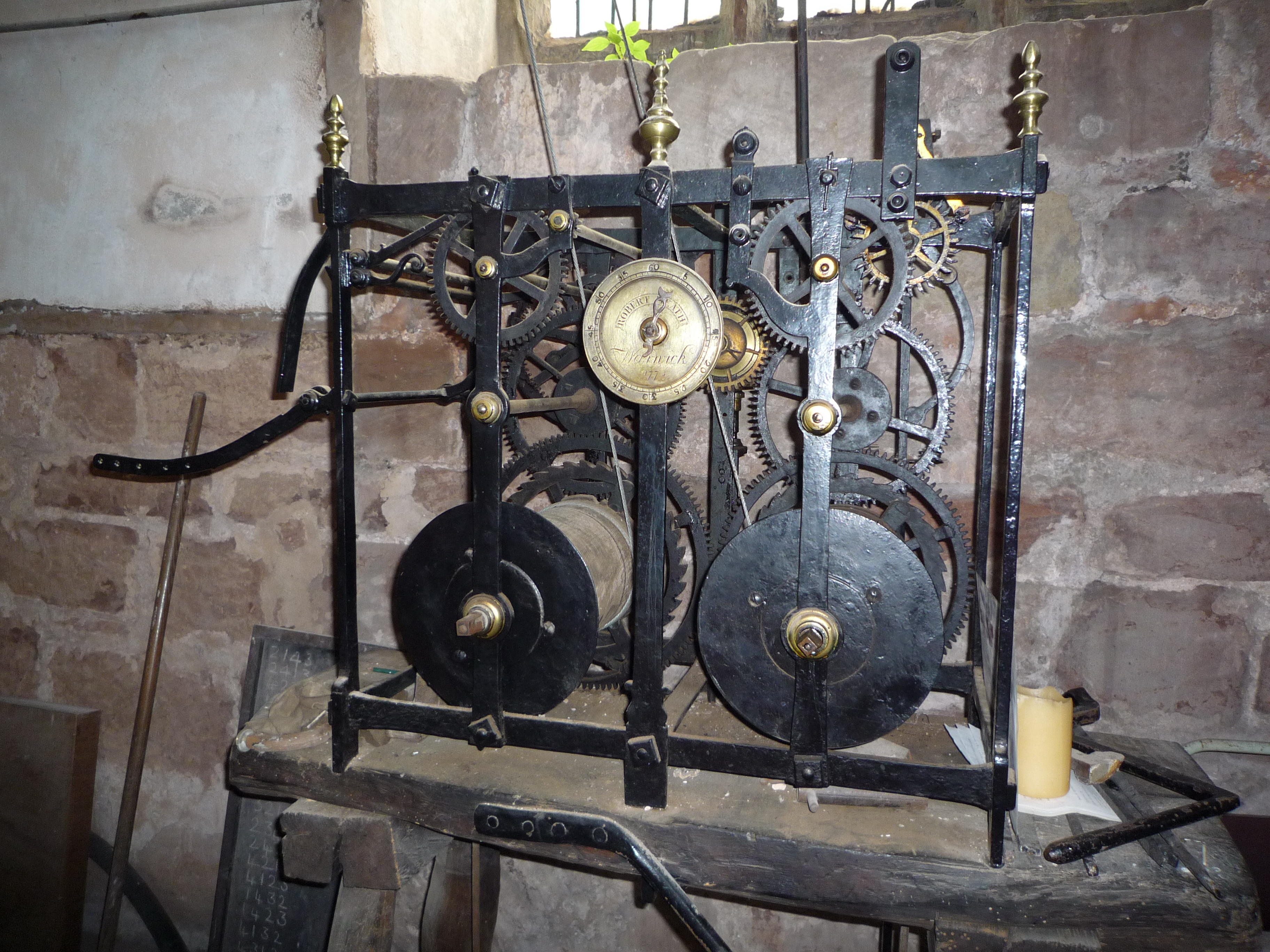 Turret clock in the ringing chamber of the parish church of St Mary the Virgin, Astley, Warwickshire, England. Made by Robert Heath of Warwick, 1773. Not operational.